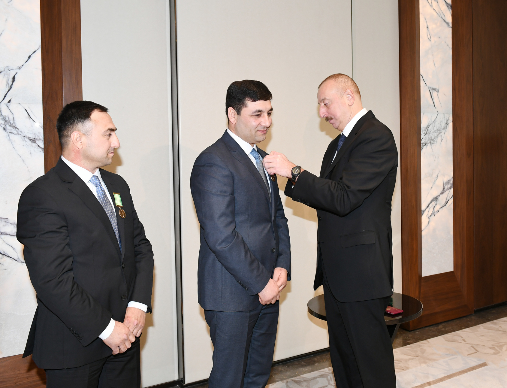 Ilham Aliyev awarded Sabir and Umud Shirinov brothers "For Bravery" medal